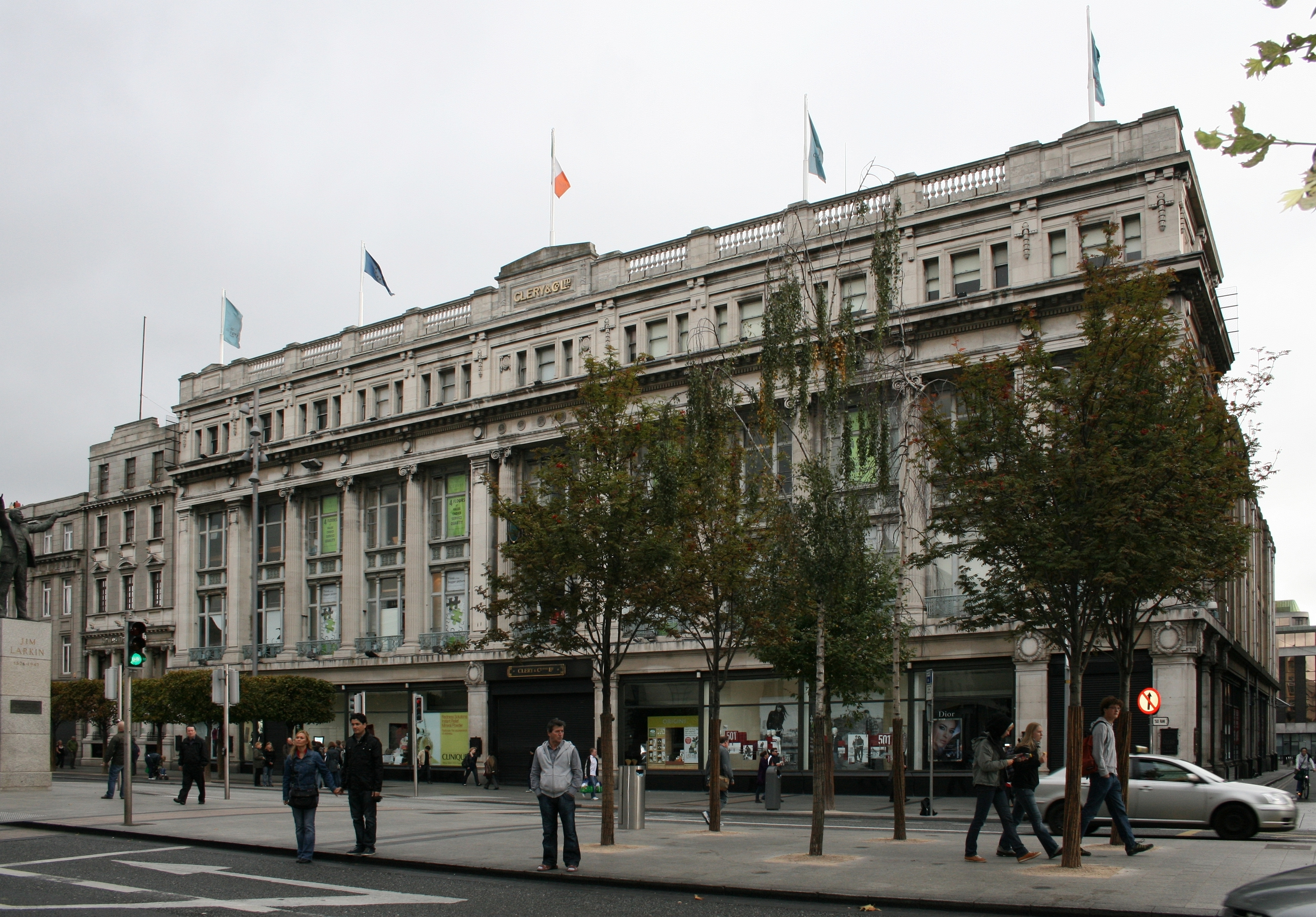 Ireland, Dublin, O'Connell Street: Clery’s store